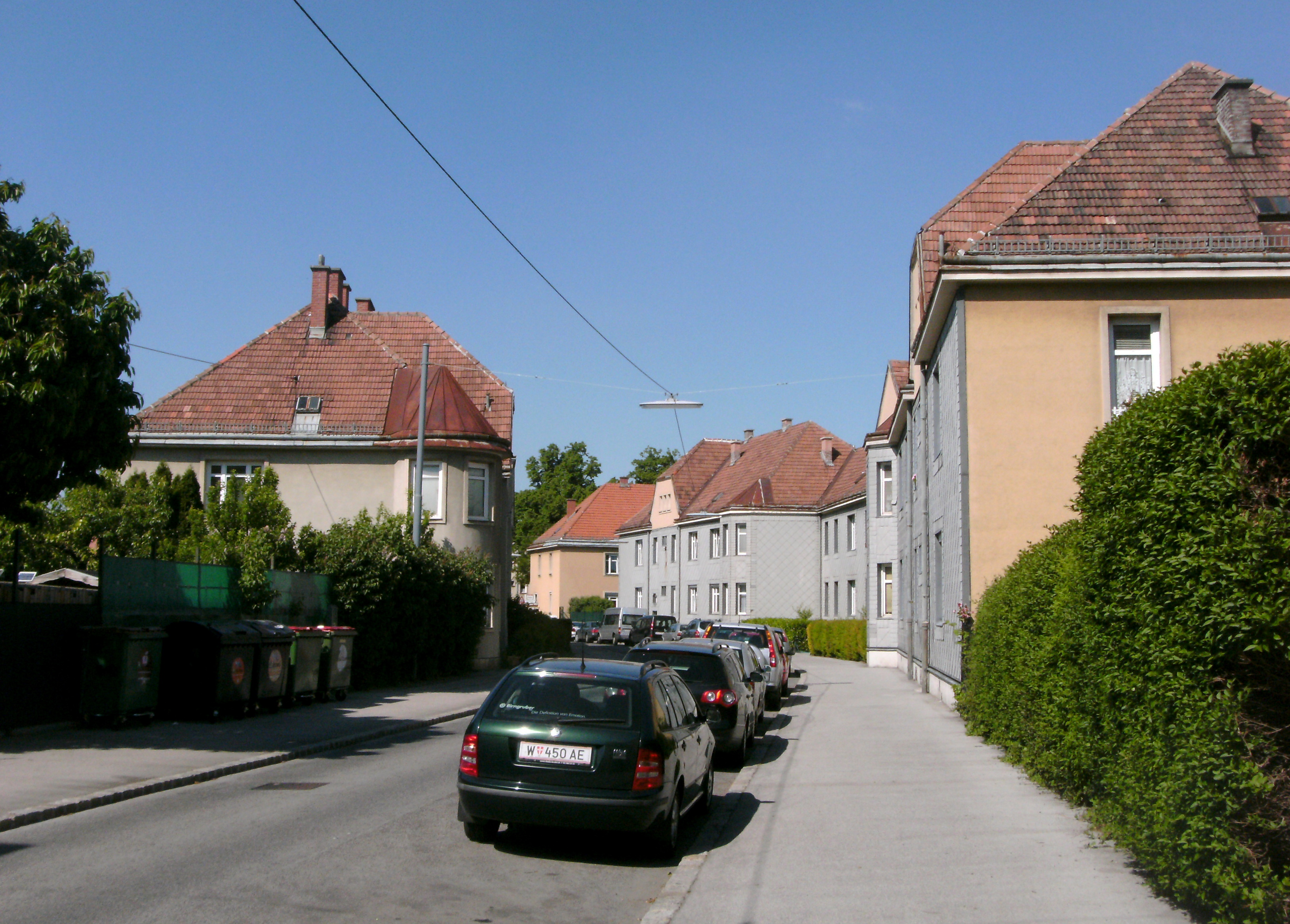 View of Mareschgasse in the municipal residential area Schmelz, Vienna's 15th district